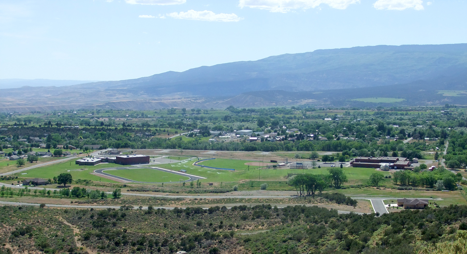 The town of Cedaredge, Colorado, as viewed from Cedar Mesa. The Cedaredge High School and Middle School are in the foreground.